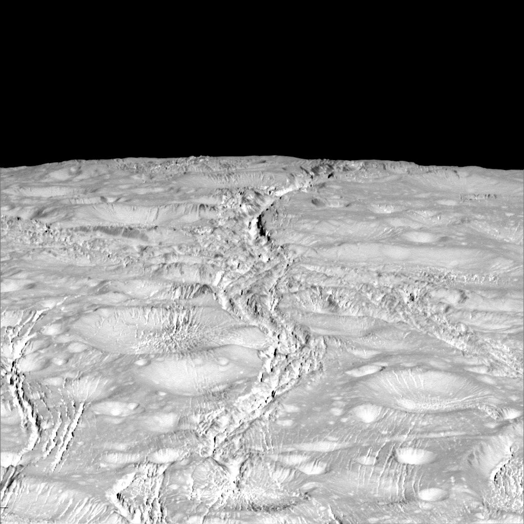 PIA19660: Enceladus - A Fractured Pole - NASA's Cassini spacecraft zoomed by Saturn's icy moon Enceladus on Oct. 14, 2015, capturing this stunning image of the moon's north pole. A companion view from the wide-angle camera (PIA20010) shows a zoomed out view of the same region for context. Scientists expected the north polar region of Enceladus to be heavily cratered, based on low-resolution images from the Voyager mission, but high-resolution Cassini images show a landscape of stark contrasts. Thin cracks cross over the pole -- the northernmost extent of a global system of such fractures. Before this Cassini flyby, scientists did not know if the fractures extended so far north on Enceladus. North on Enceladus is up. The image was taken in visible green light with the Cassini spacecraft narrow-angle camera. The view was acquired at a distance of approximately 4,000 miles (6,000 kilometers) from Enceladus and at a Sun-Enceladus-spacecraft, or phase, angle of 9 degrees. Image scale is 115 feet (35 meters) per pixel. The Cassini mission is a cooperative project of NASA, ESA (the European Space Agency) and the Italian Space Agency. The Jet Propulsion Laboratory, a division of the California Institute of Technology in Pasadena, manages the mission for NASA's Science Mission Directorate, Washington. The Cassini orbiter and its two onboard cameras were designed, developed and assembled at JPL. The imaging operations center is based at the Space Science Institute in Boulder, Colorado. For more information about the Cassini-Huygens mission visit and The Cassini imaging team homepage is at